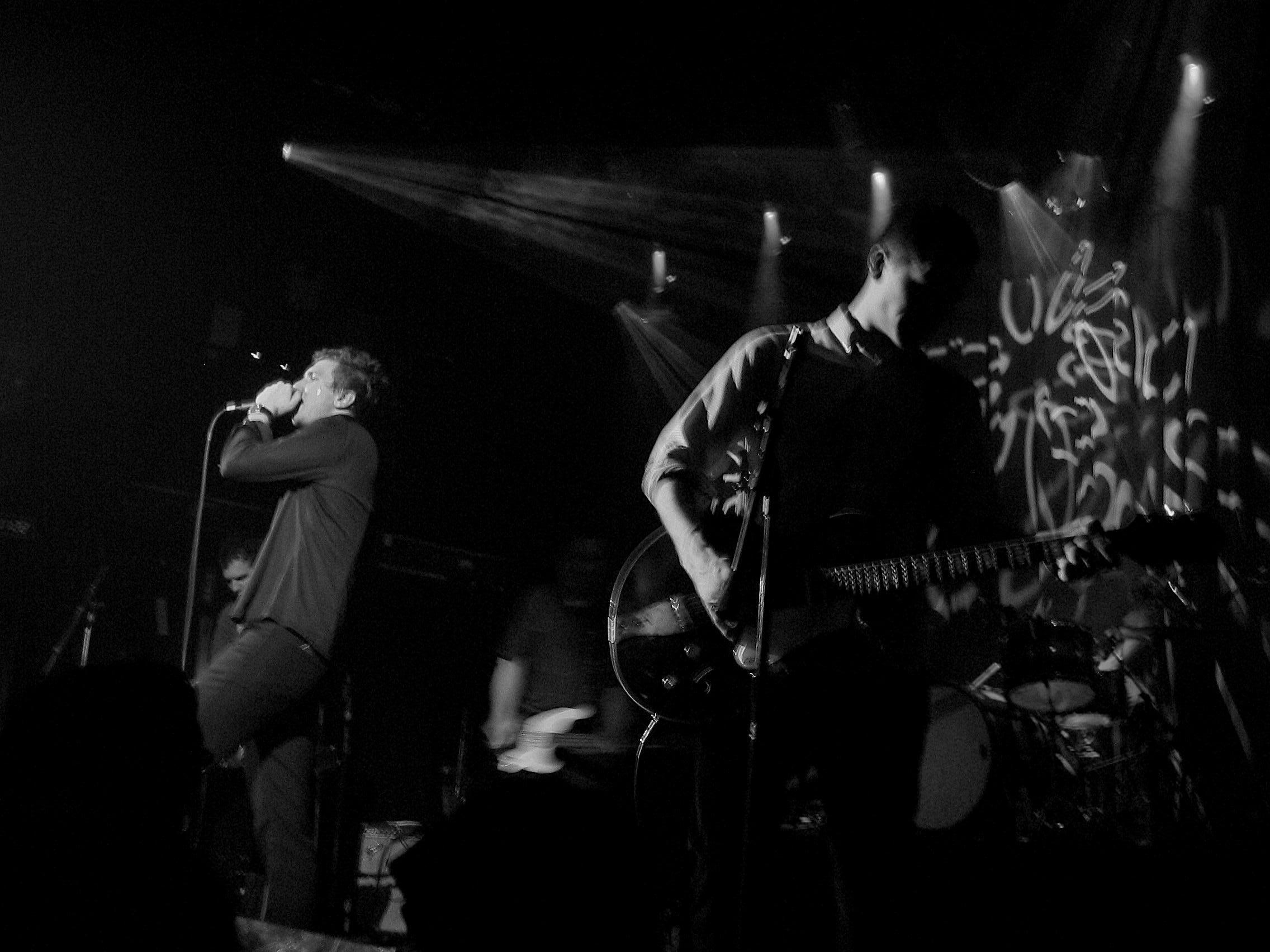 The Walkmen in Concert